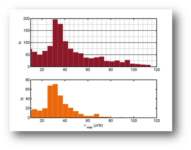 Histograms of theoretical and CoRoT red giant populations in our Galaxy